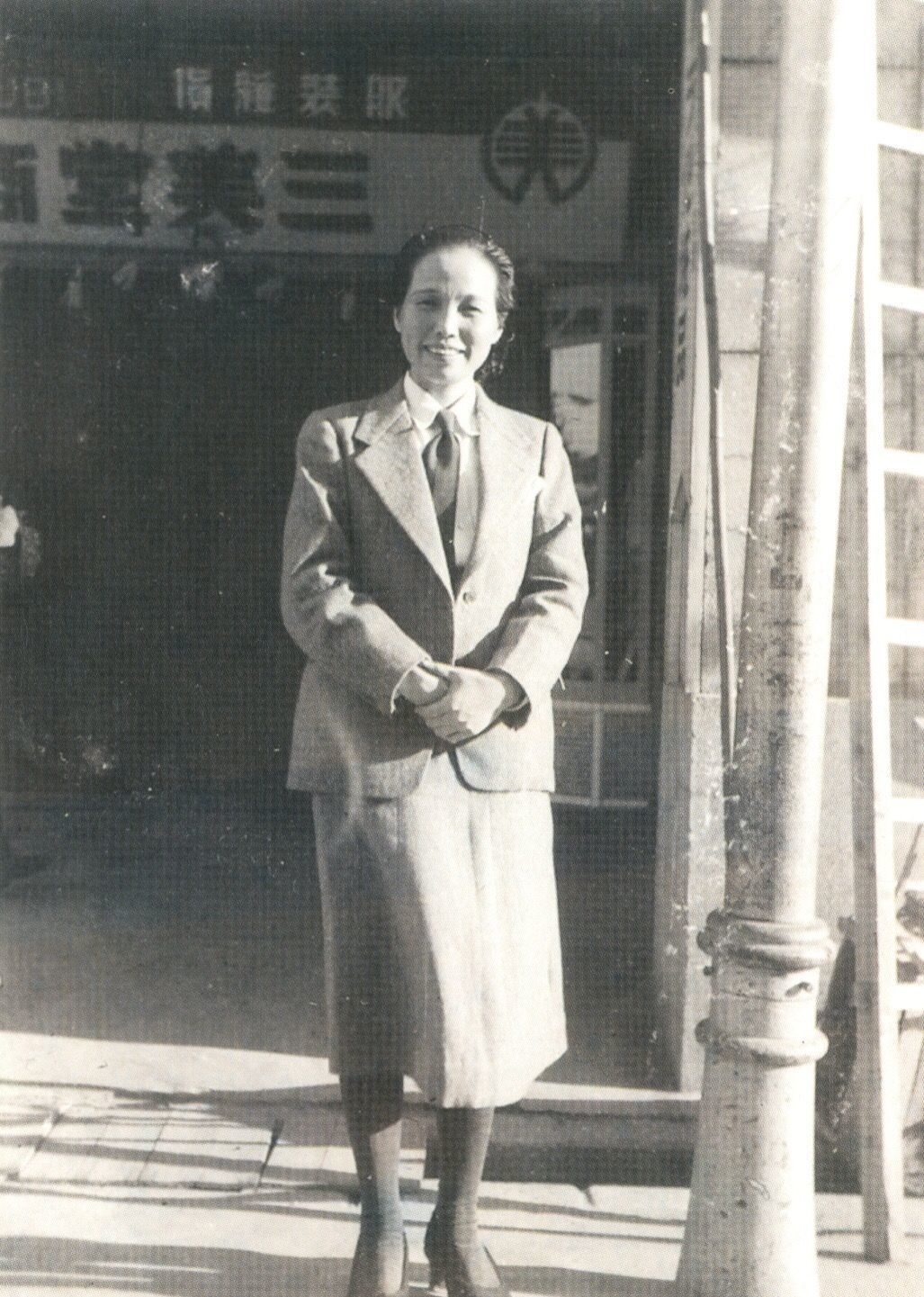 Sia Soat-hong (謝雪紅, Xie Xuehong), at Taichung.